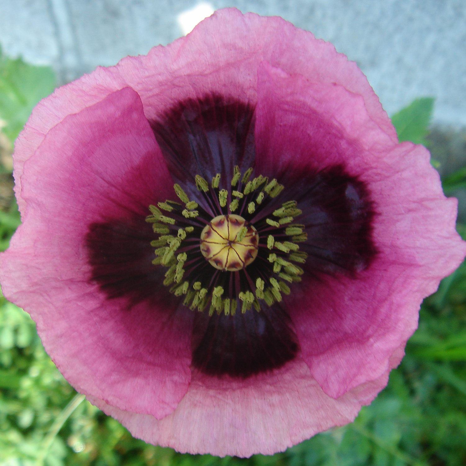 Unknown pink flower with deep purple cross through its centrePink Flower